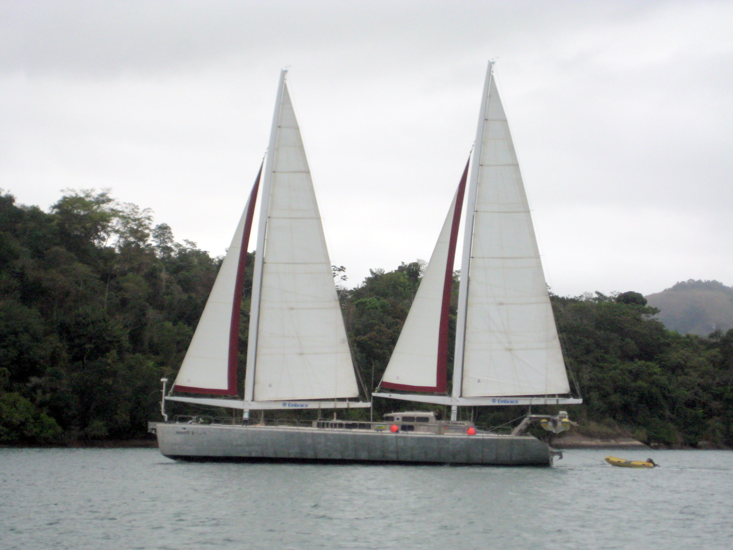 Polar vessel ‘Paratii 2’ near Paraty, RJ, Brazil.